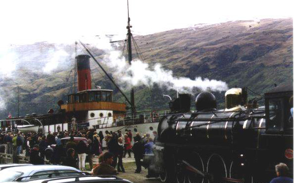 The TSS EARNSLAW Meets the Kingston Flyer at the Kingston Warf